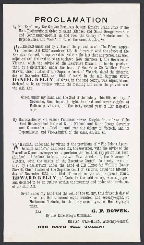 Proclamation by the Governor of Victoria declaring Ned and Dan Kelly outlaws following the Stringybark police murders.